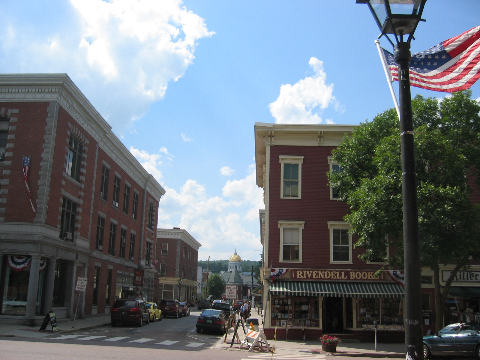 Downtown Montpelier, Vermont, with State Capitol in distance.